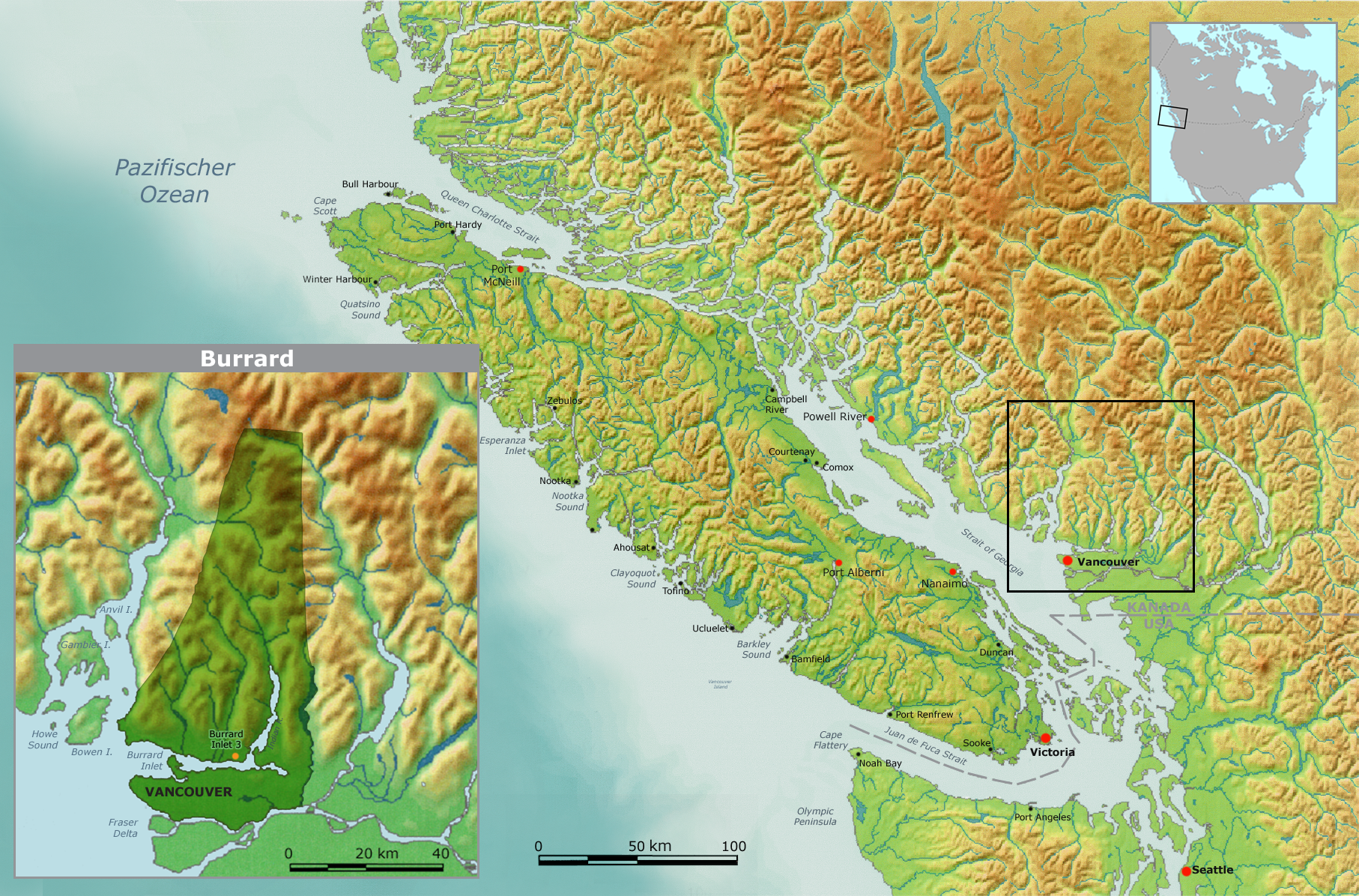 Map of traditional Burrard tribal territory.